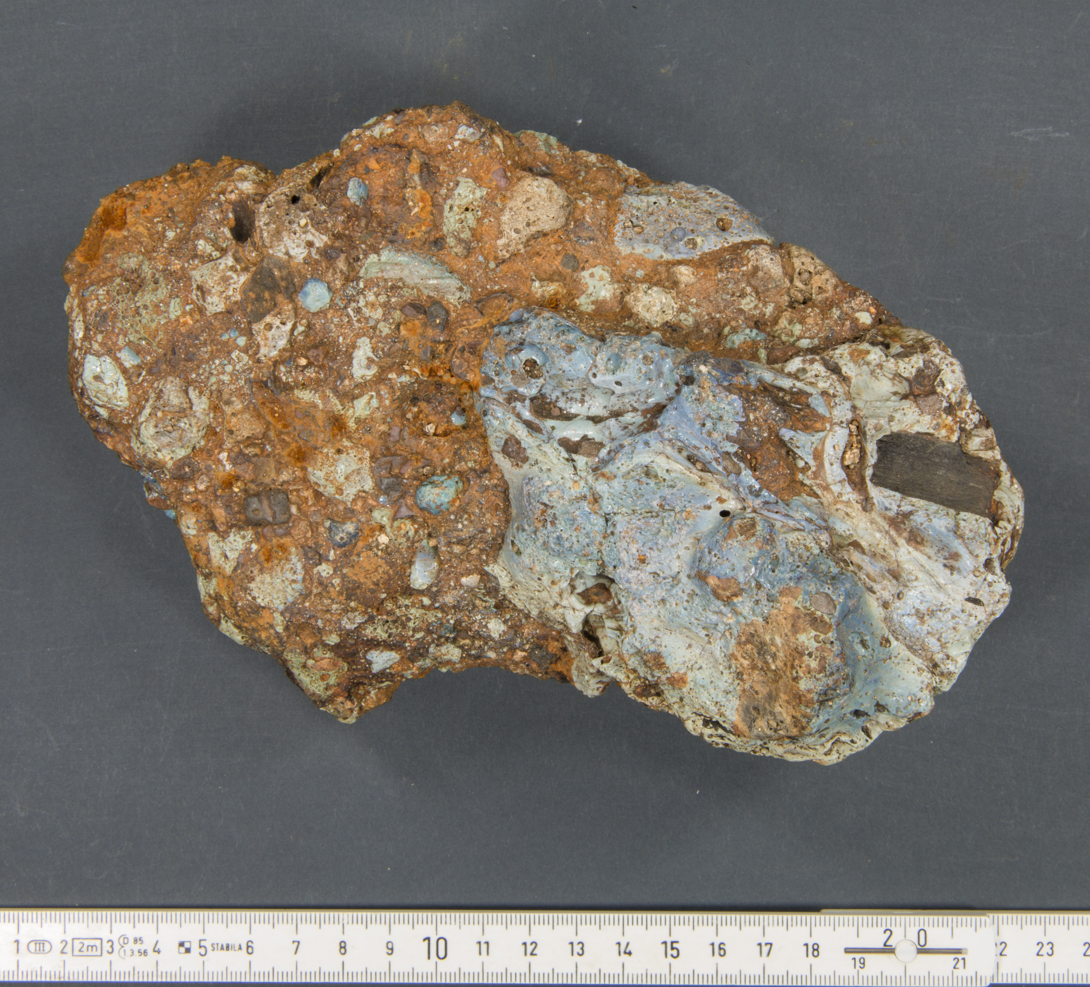 Cinder from opper ore, Bode Valley, Elend, Harz, Germany